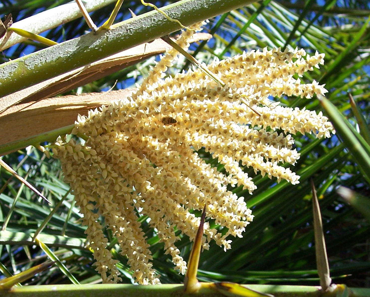 Male inflorescence of Phoenix reclinata, acanthophylls (not true spines, but modified leaflets) in foreground, pollinator present, white scales on rachis above.